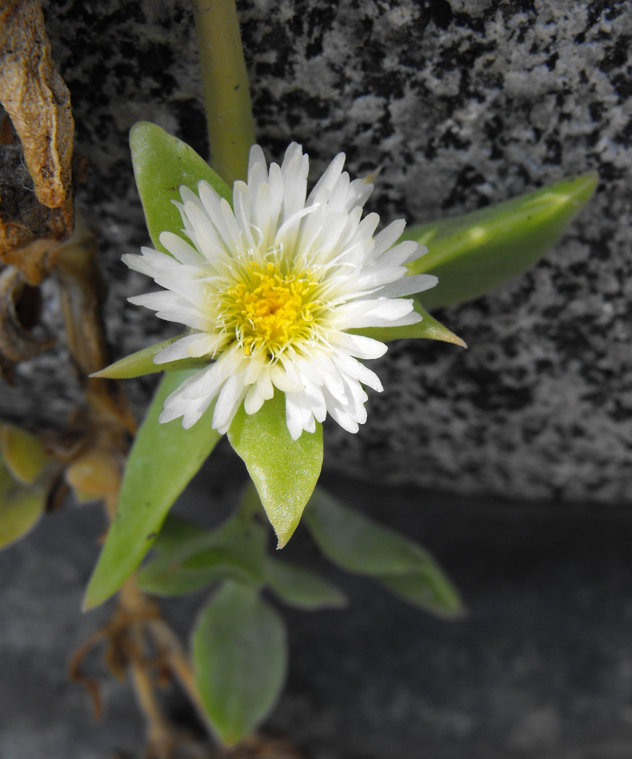 Delosperma tradescantioides at the Huntington Library & Botanical Gardens in San Marino, California, USA. Identified by sign.